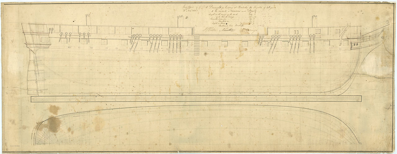 Nemesis (1826); Druid (1825); Stag (1830); Forth (1833); Seahorse (1830); Severn (cancelled 1831) Scale: 1:48. Plan showing the body plan, sheer lines, and longitudinal half-breadth for Nemesis (1826) and Druid (1825), and later with alterations dated January 1828 to the depth of the hold and decks for Stag (1830), Forth (1833), Seahorse (1830), and Severn (cancelled 1831), all 46-gun Fifth Rate Frigates building at Pembroke Dockyard. Signed by Henry Peake [Surveyor of the Navy 1806-1822], Joseph Tucker [Surveyor of the Navy, 1813-1831], and Robert Seppings [Surveyor of the Navy, 1813-1832]. NEMESIS 1826